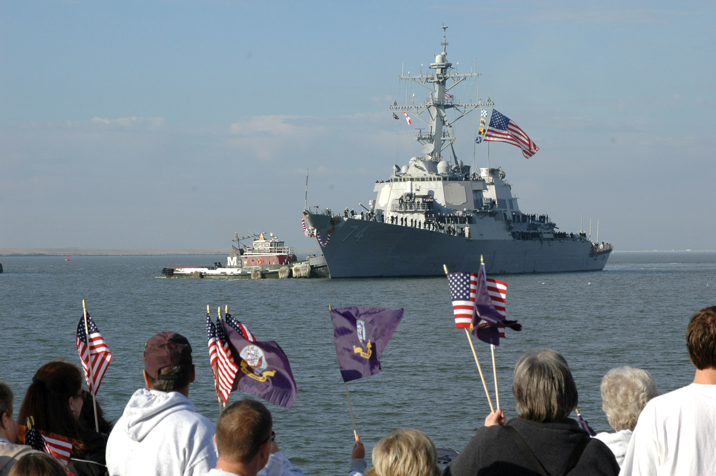 Norfolk, Va. (Nov. 14, 2006) - Families and friends wait on the pier as the guided-missile destroyer USS McFaul (DDG 74) arrives into port at Naval Station Norfolk after a six-month deployment. McFaul was deployed with the Enterprise Carrier Strike Group in support of the global war on terrorism. U.S. Navy photo by Mass Communication Specialist 1st Class Moise Medel (RELEASED)